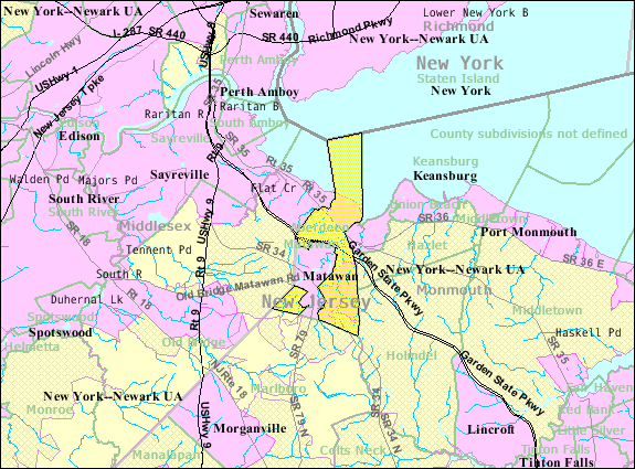 Census Bureau map of Aberdeen Township